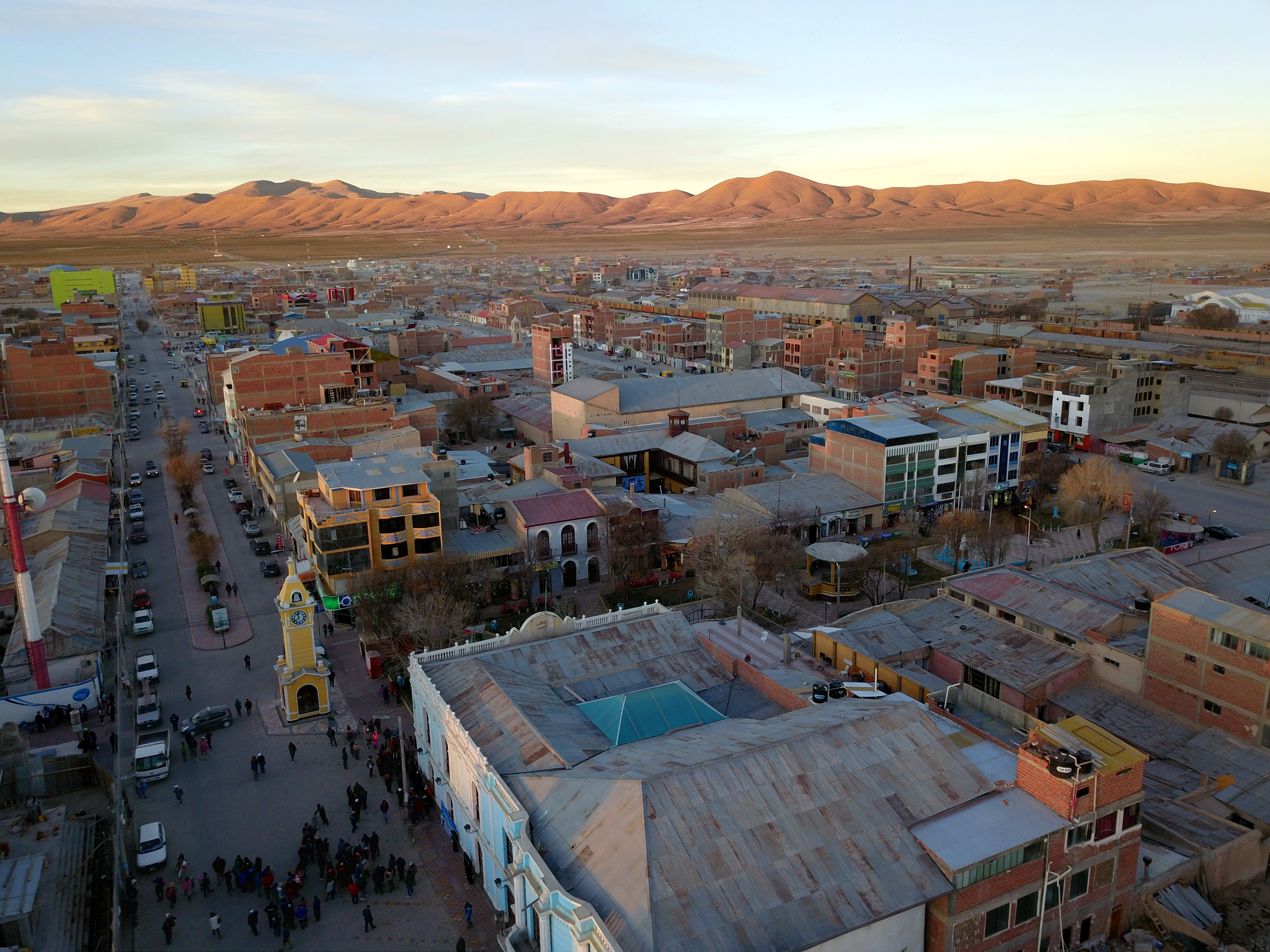 Color photograph of Uyuni, Bolivia, taken at sunset with a quadcopter drone facing ENE, showing Potosí Avenue and the clock tower that stands at the NW end of Plaza Arce. Captured with a DJI Mavic Pro. Retouched using GIMP.